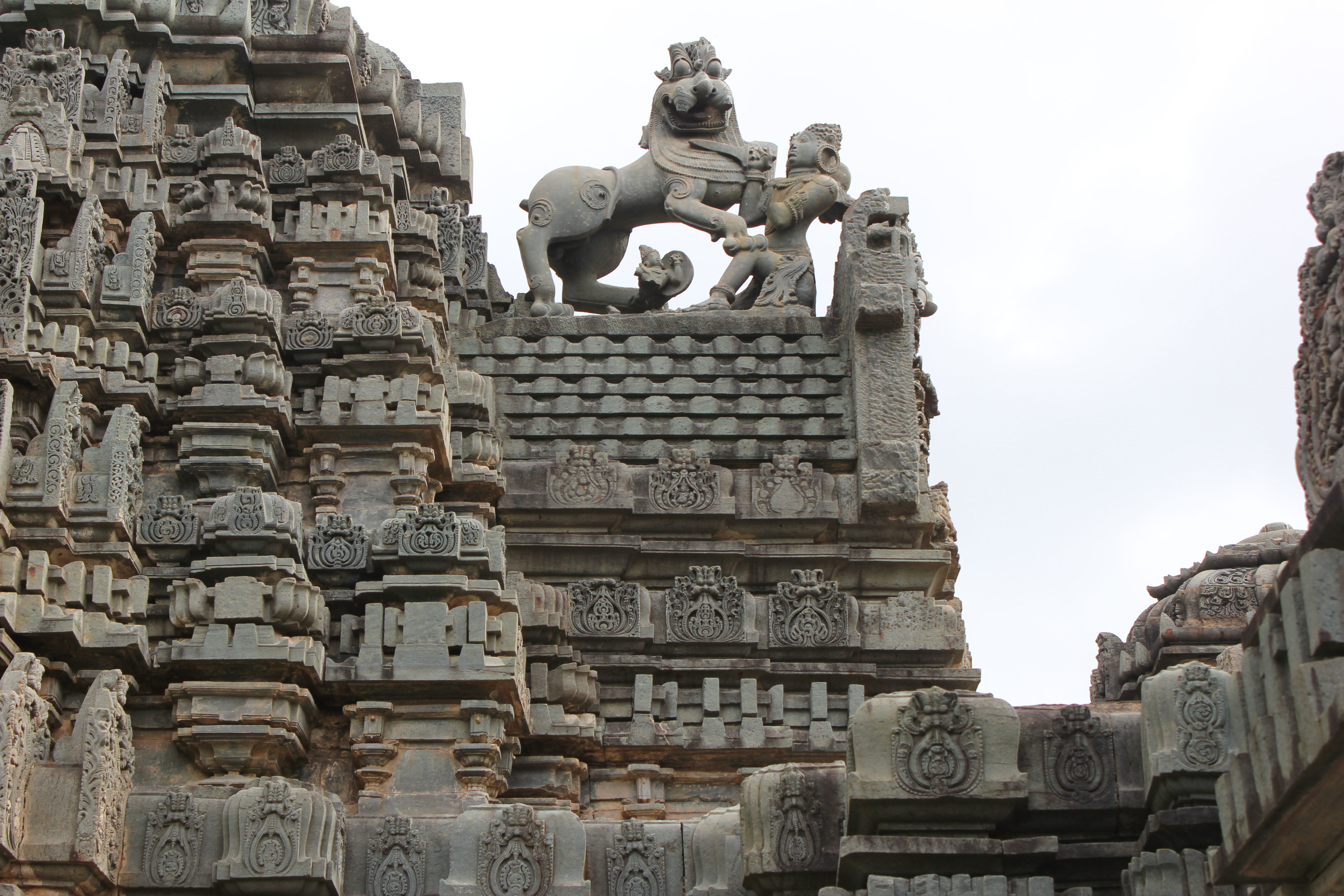 This photograph was taken by me at the Kedareshvara temple (also spelt Kedaresvara or Kedareshwara) in Balligavi (also called variously as Belgami, Belligave, Balligamve and Ballipura in ancient inscriptions) in the Shimoga district of Karnataka state, India. The temple was built in the late 11th century by the Western Chalukya Empire rulers with architectural updates into the first half of 12th century during the rule of Hoysala Empire.